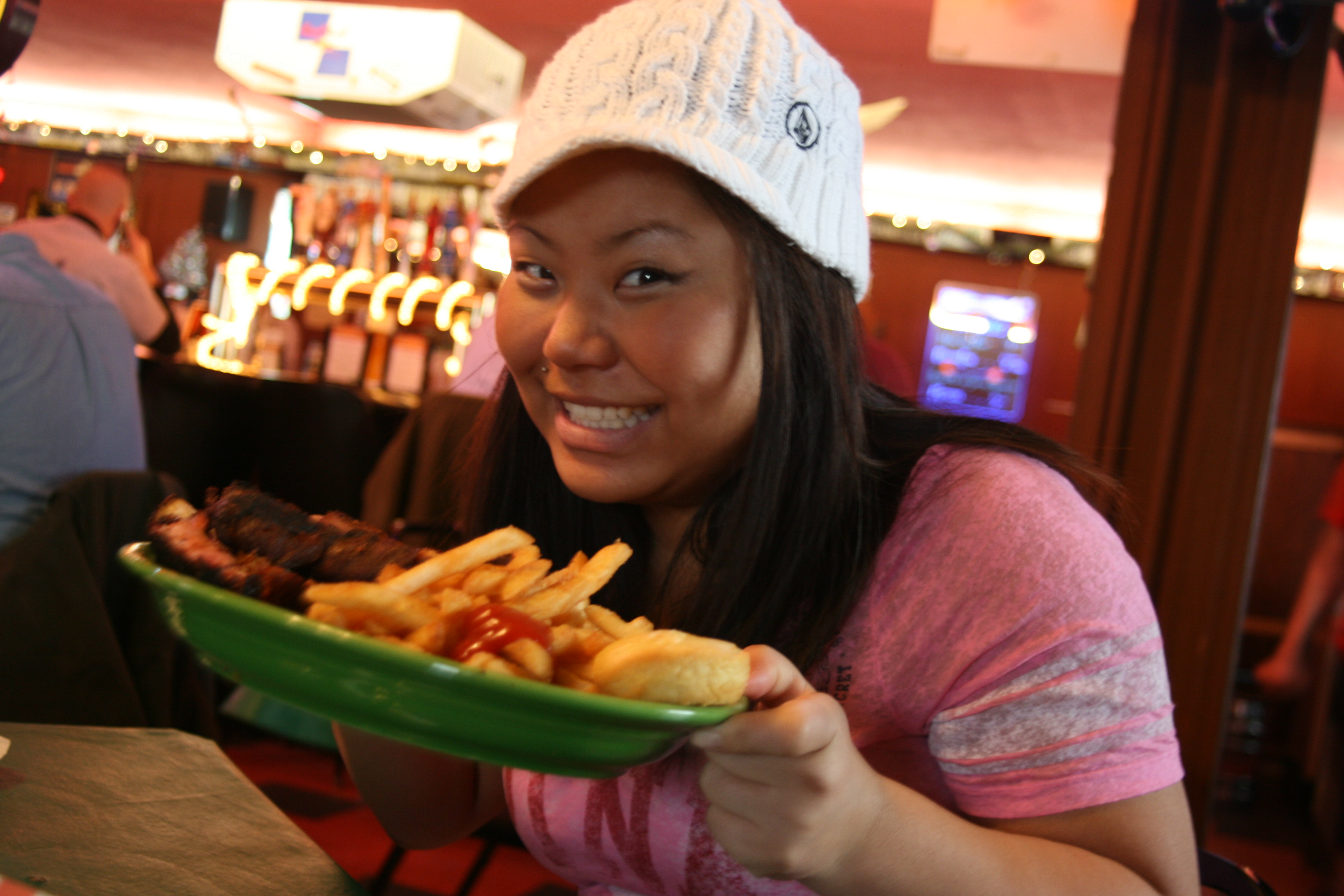 And no one giving you crap about it.